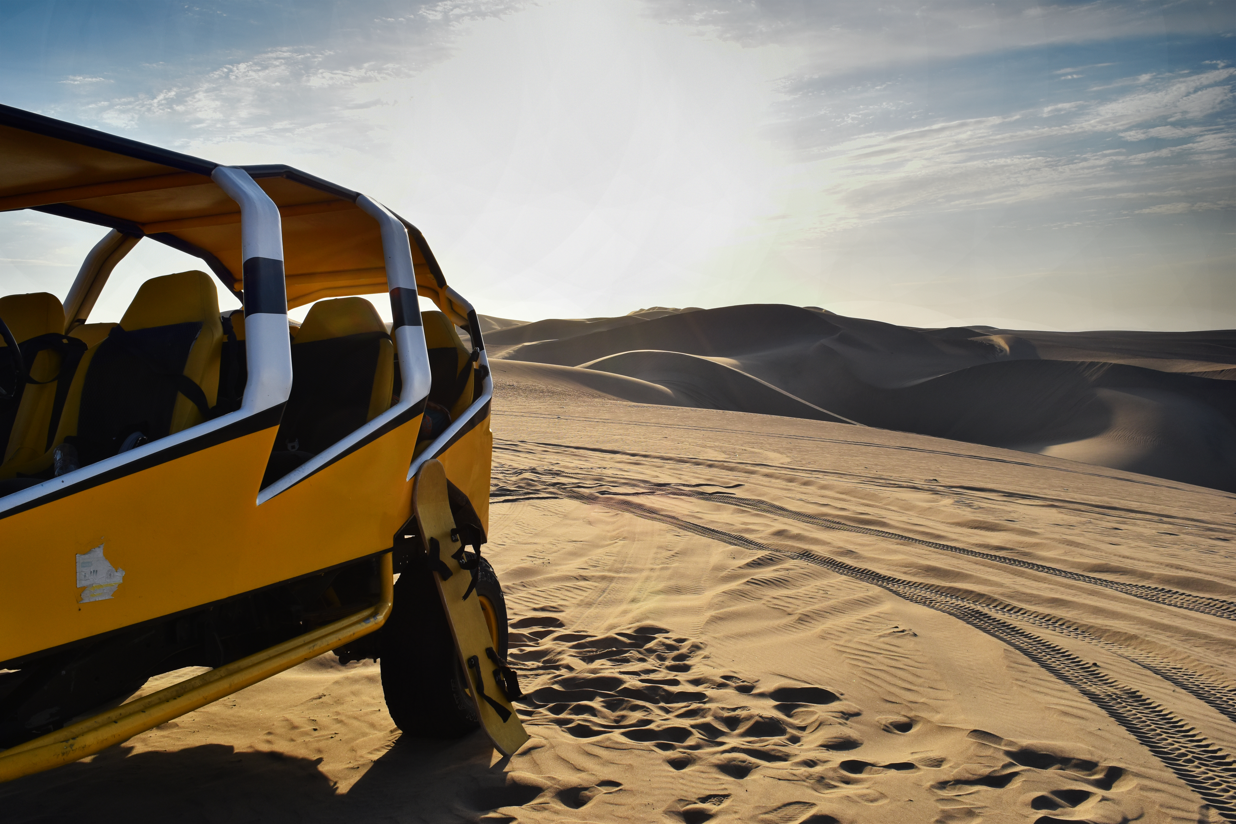 Huacachina, Peru